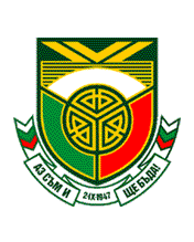 Coat of arms of Dimitrovgrad, Bulgaria